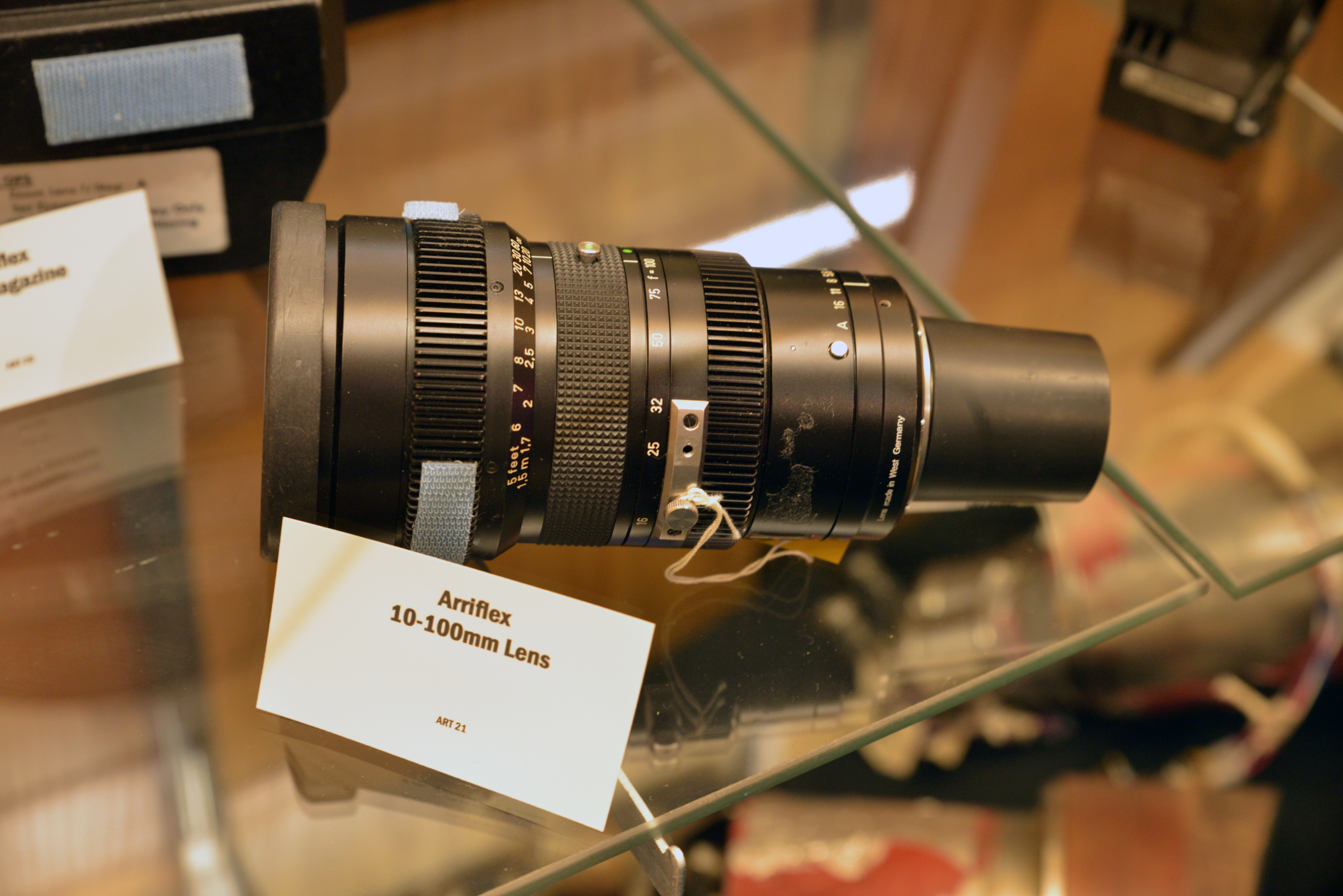 At the Stafford Air & Space Museum, Weatherford, Oklahoma, U.S.